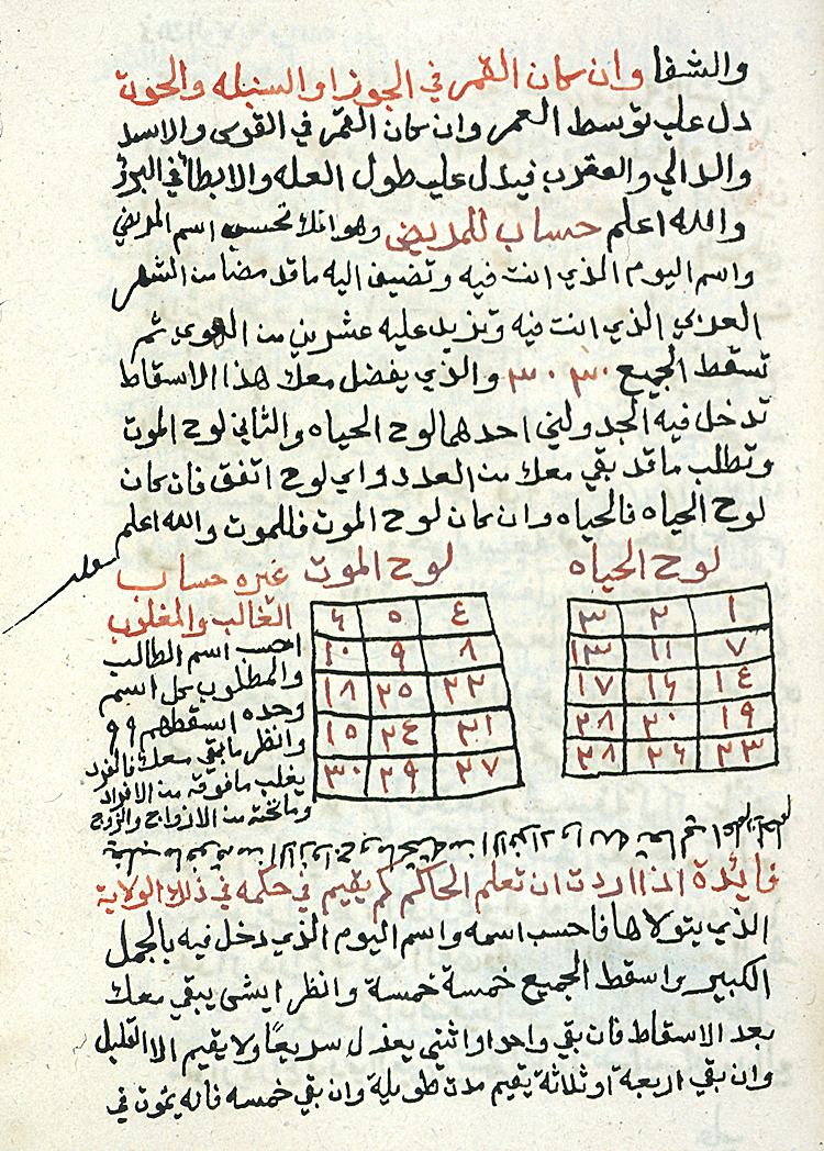 "Two charts for determining whether a person will live or die based on the numerical value of the patient's name. From copy of a portion of Kitab Sirr al-asrar (The Secret of Secrets) falsely attributed to Aristotle. The copy is dated on fol. 9b, line 12: Rajab 1264 [= 3 June-2 July 1848]."